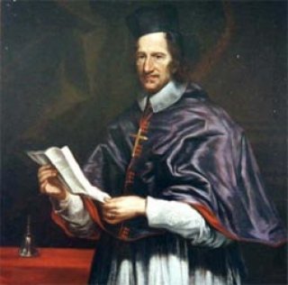 Giorgio Spinola, cardinal secretary of state